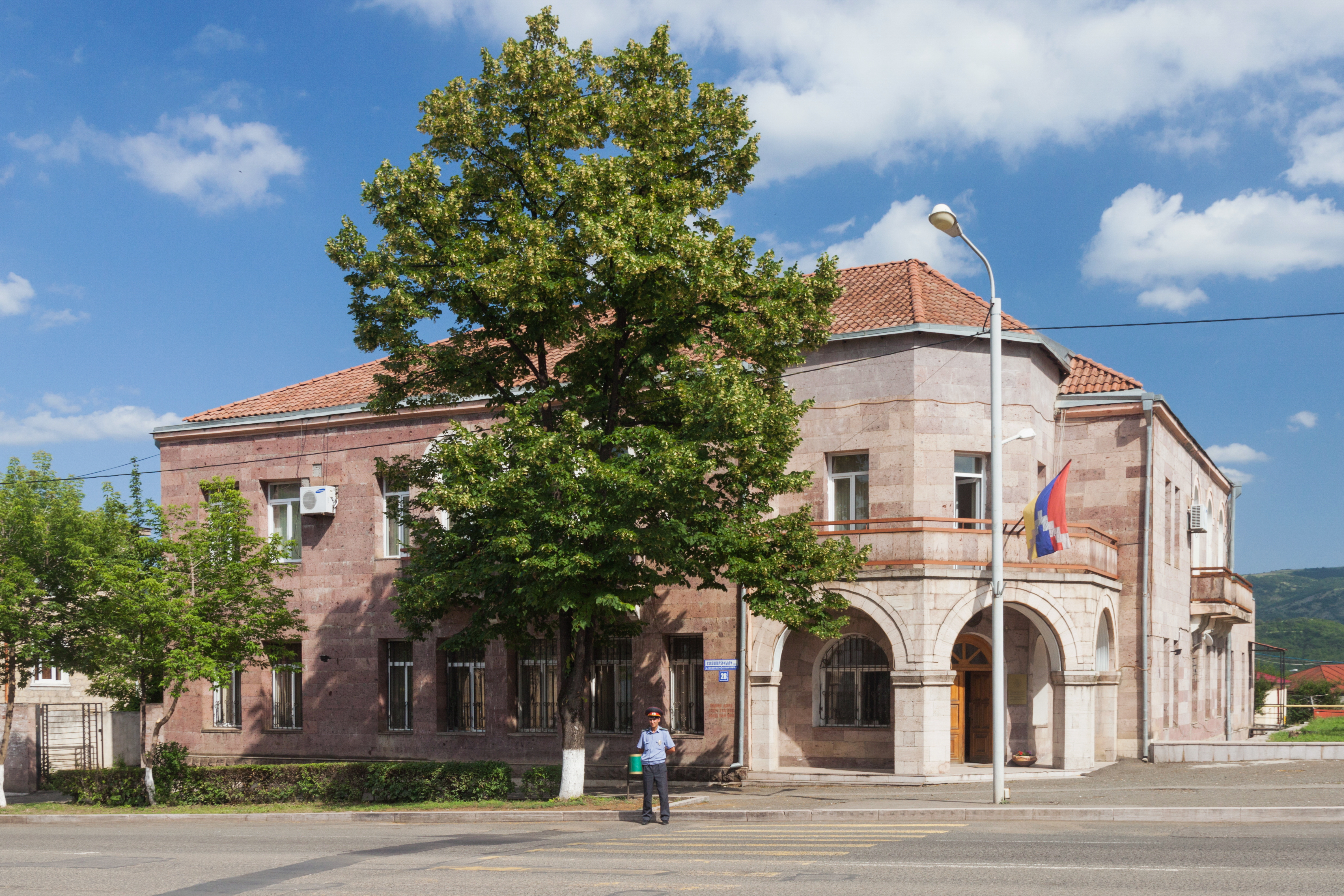 Building of the Ministry of Foreign Affairs of the Nagorno-Karabakh Republic. Stepanakert/Xankəndi, Nagorno-Karabakh.